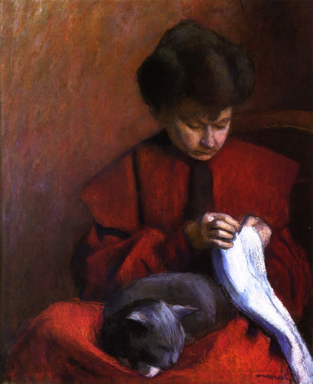 The Artist's Mother